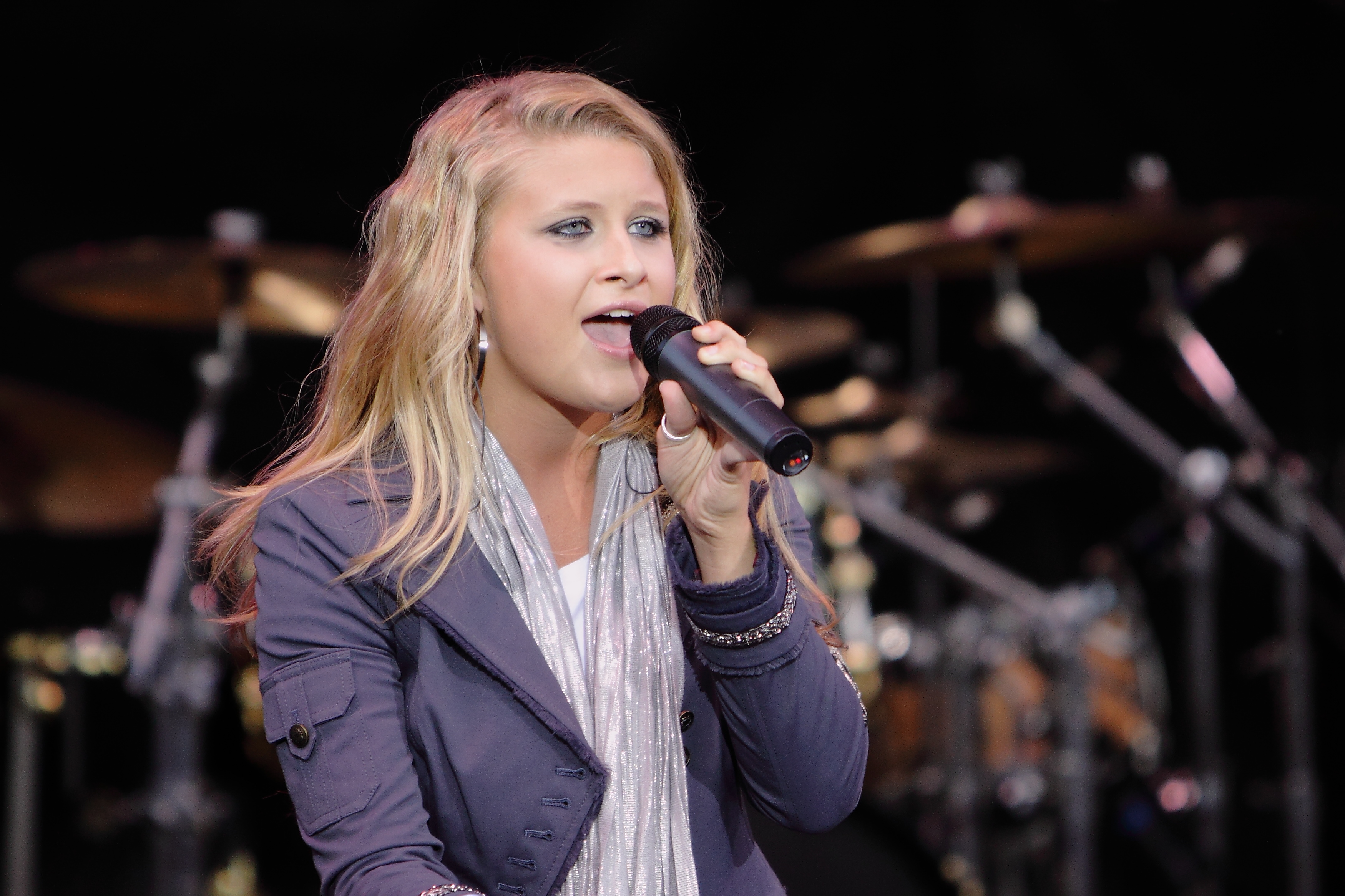 Concert photos from this female singer made famous through Youtube as taken at her performance as part of the "Disney Under the Stars" concert at the Evergreen State Fair in Monroe, WA.